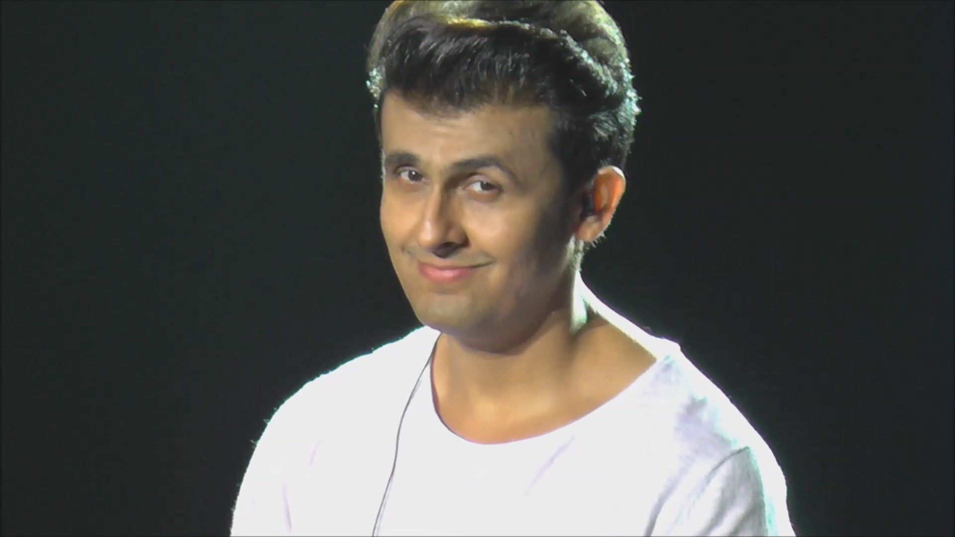 Sonu Nigam during a live show in the Netherlands in 2015